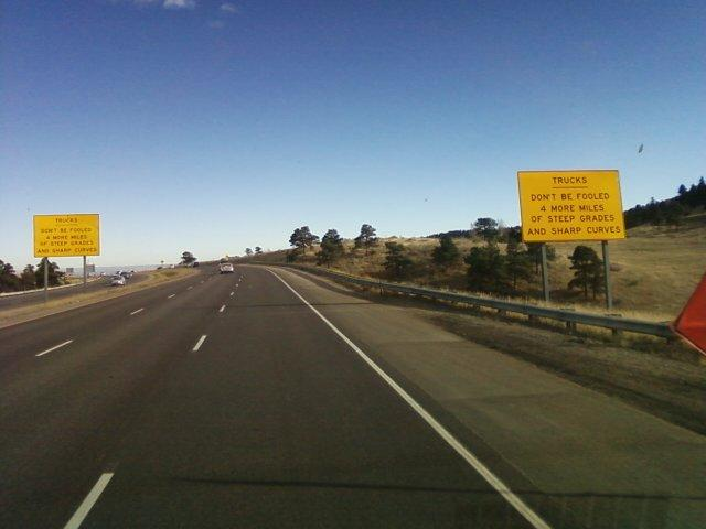 Warning signs to trucks on Interstate 70 east bound in Jefferson County, Colorado.